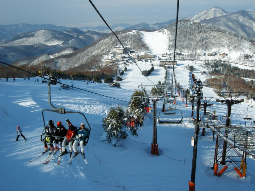 Takamagahara Ski lift - Shiga Kogen Photo: Meg Yamagute